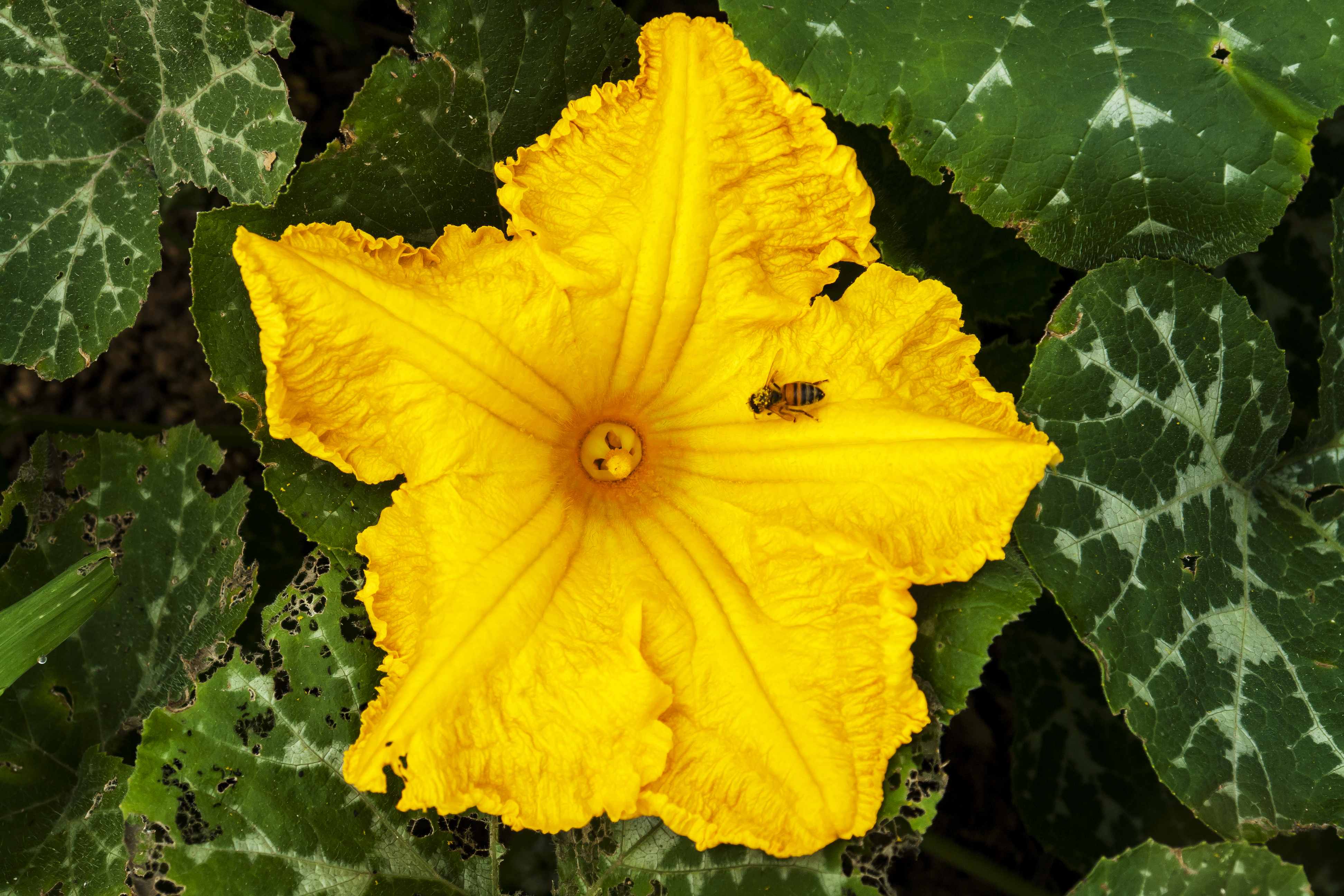 Cucurbita moschata - flower